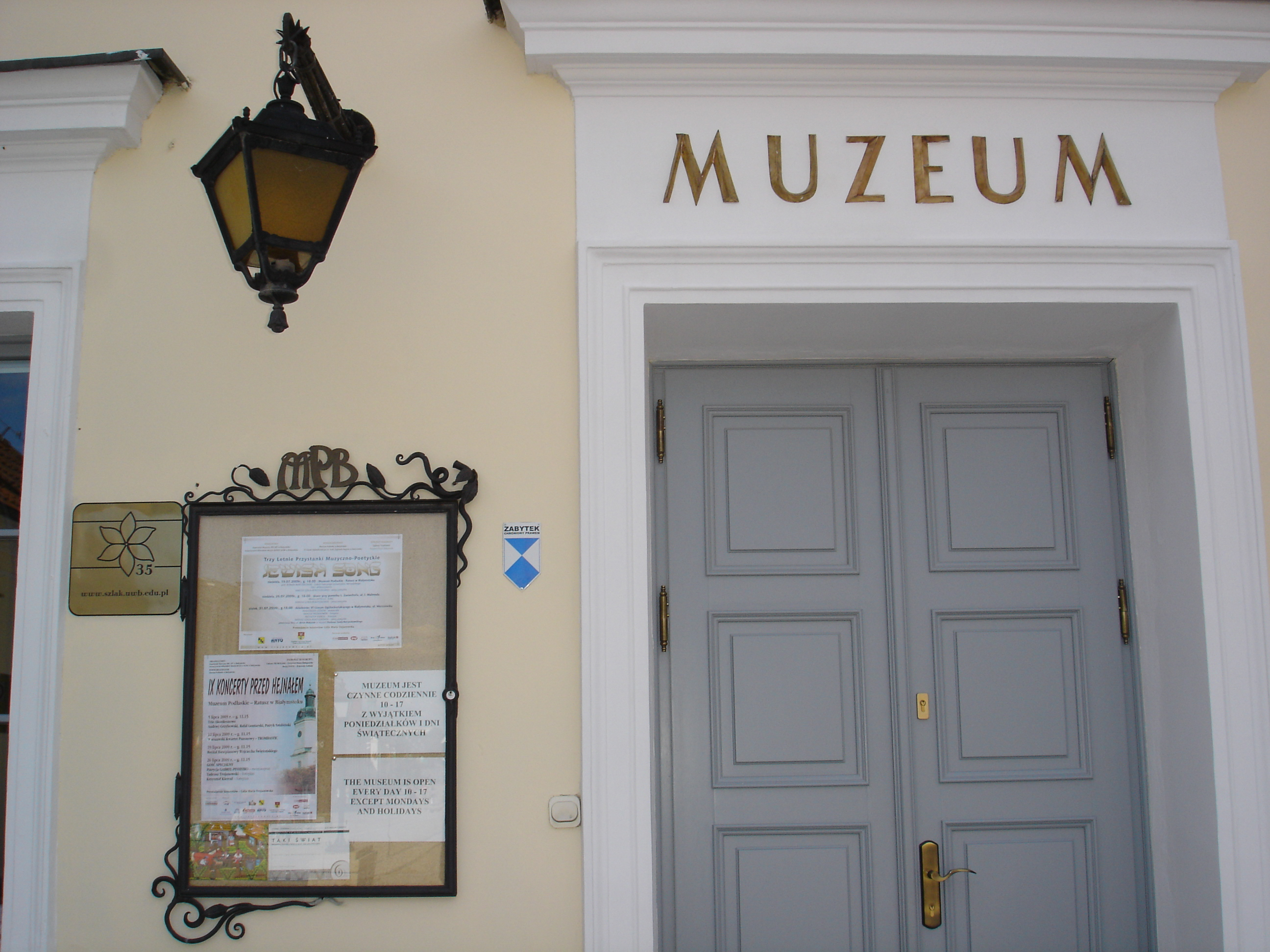 logo of Jewish Heritage Trail in Bialystok